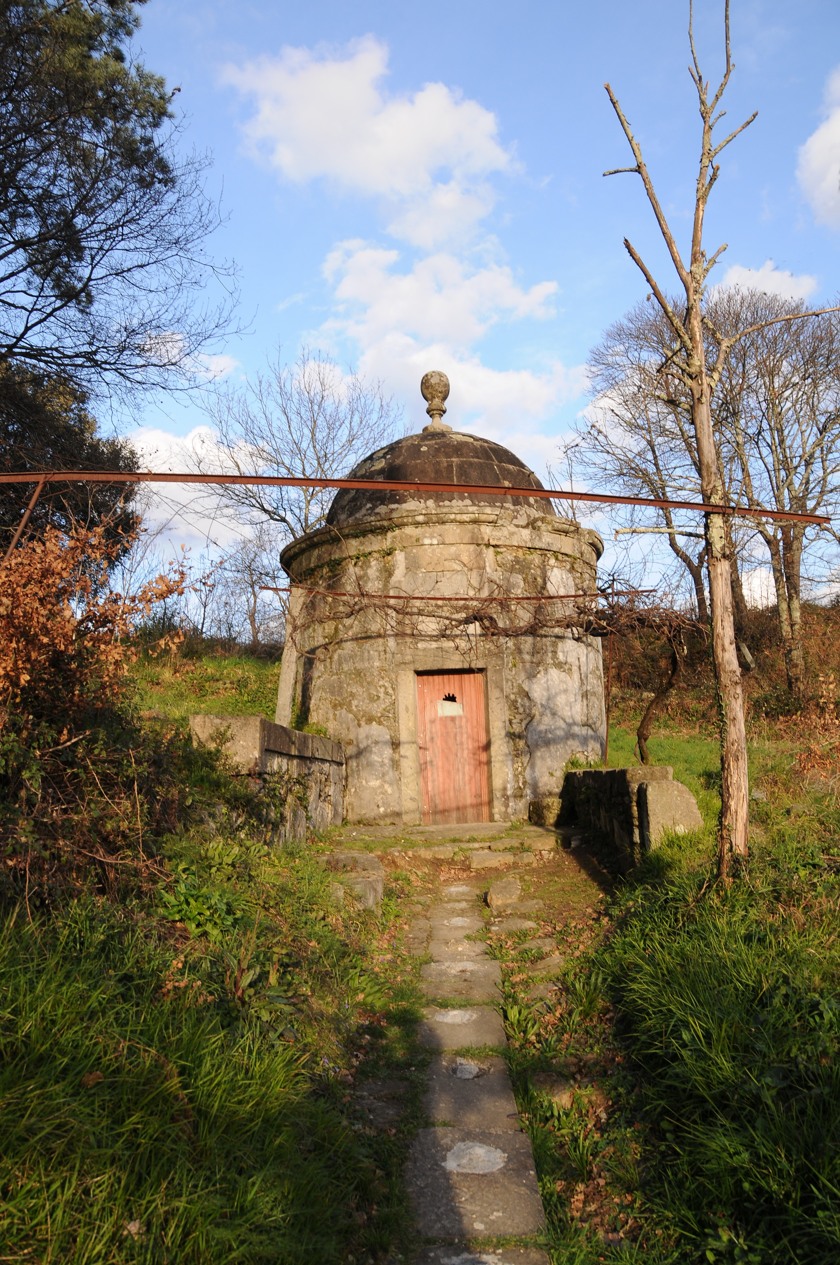 Mina do Dr. Sampaio, in Sete Fontes, Braga, Portugal.